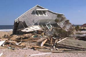 undetermined, NC, 09/06/1996 -- Some beach front property became uninhabitable due to damage by Hurricane Fran. FEMA News Photo